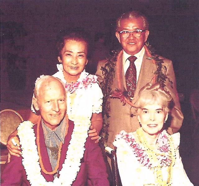 Front: Hawaii Governor John Burns with wife Beatrice, Back: Hazel and Ernest Murai